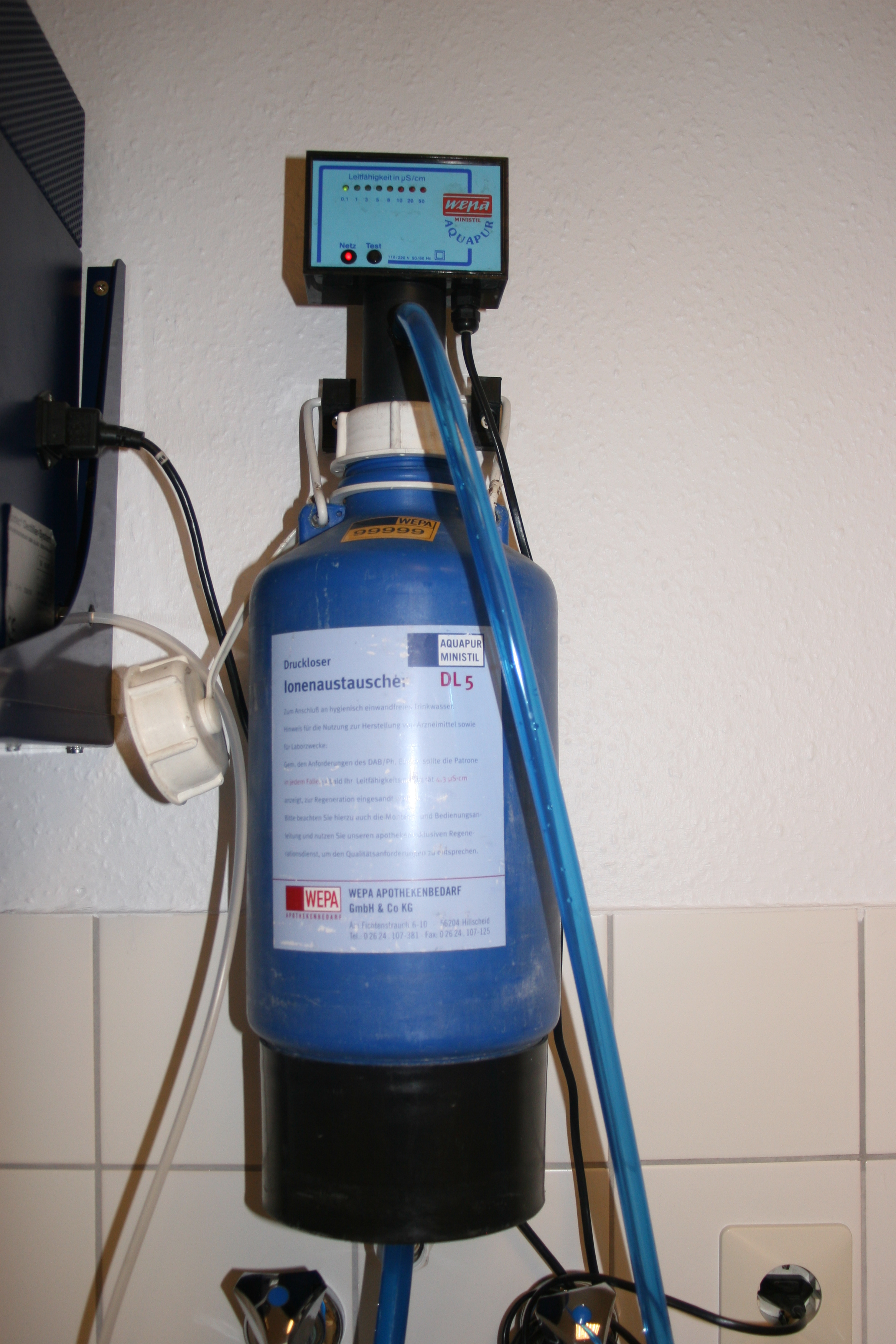 Ion exchanger in use at Theodor Heuss Pharmacy in Brackenheim